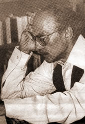 Dominican Poet Laureate Pedro Mir in his office